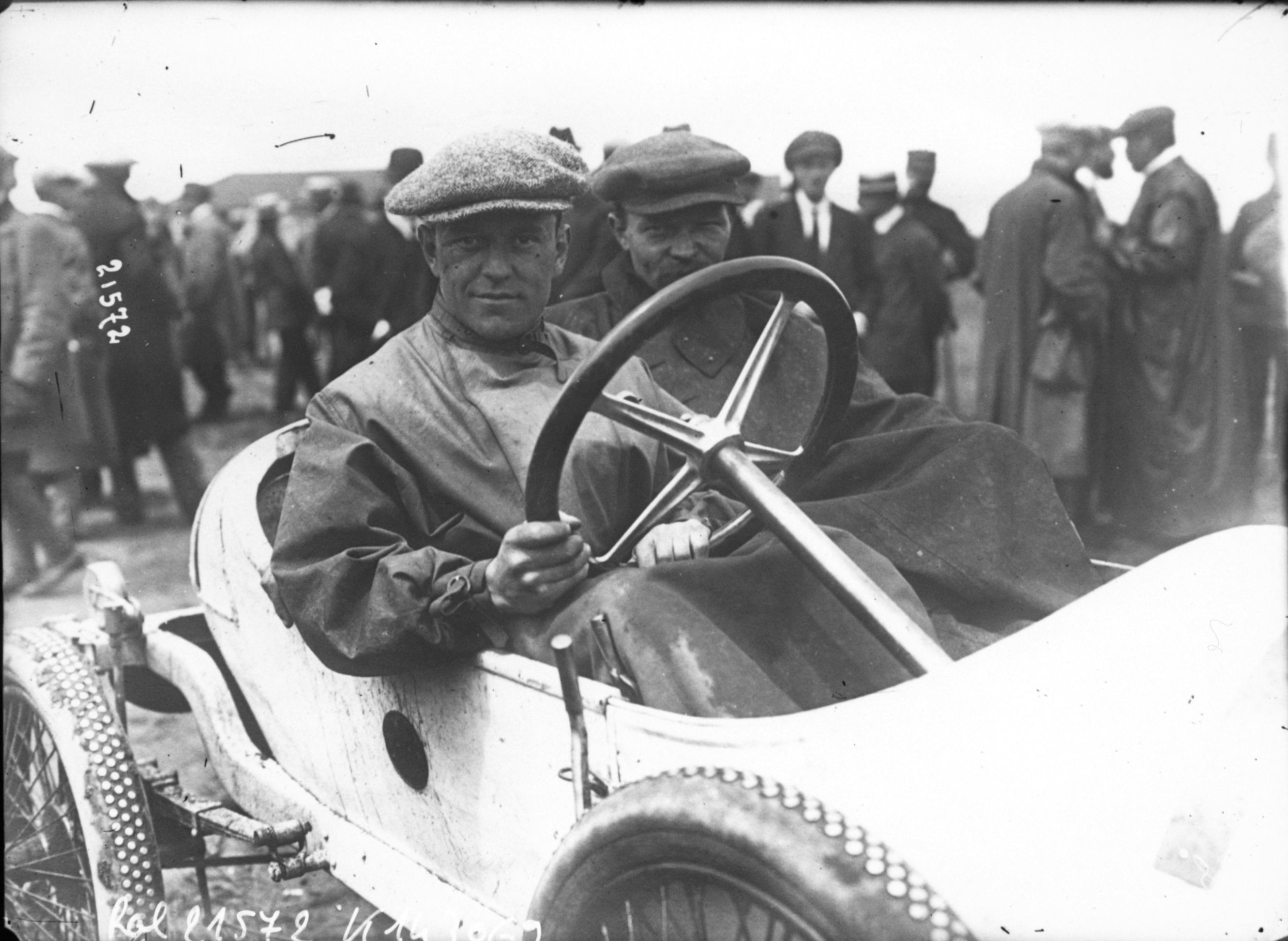 Dragutin Esser in his Mathis at the 1912 French Grand Prix at Dieppe.